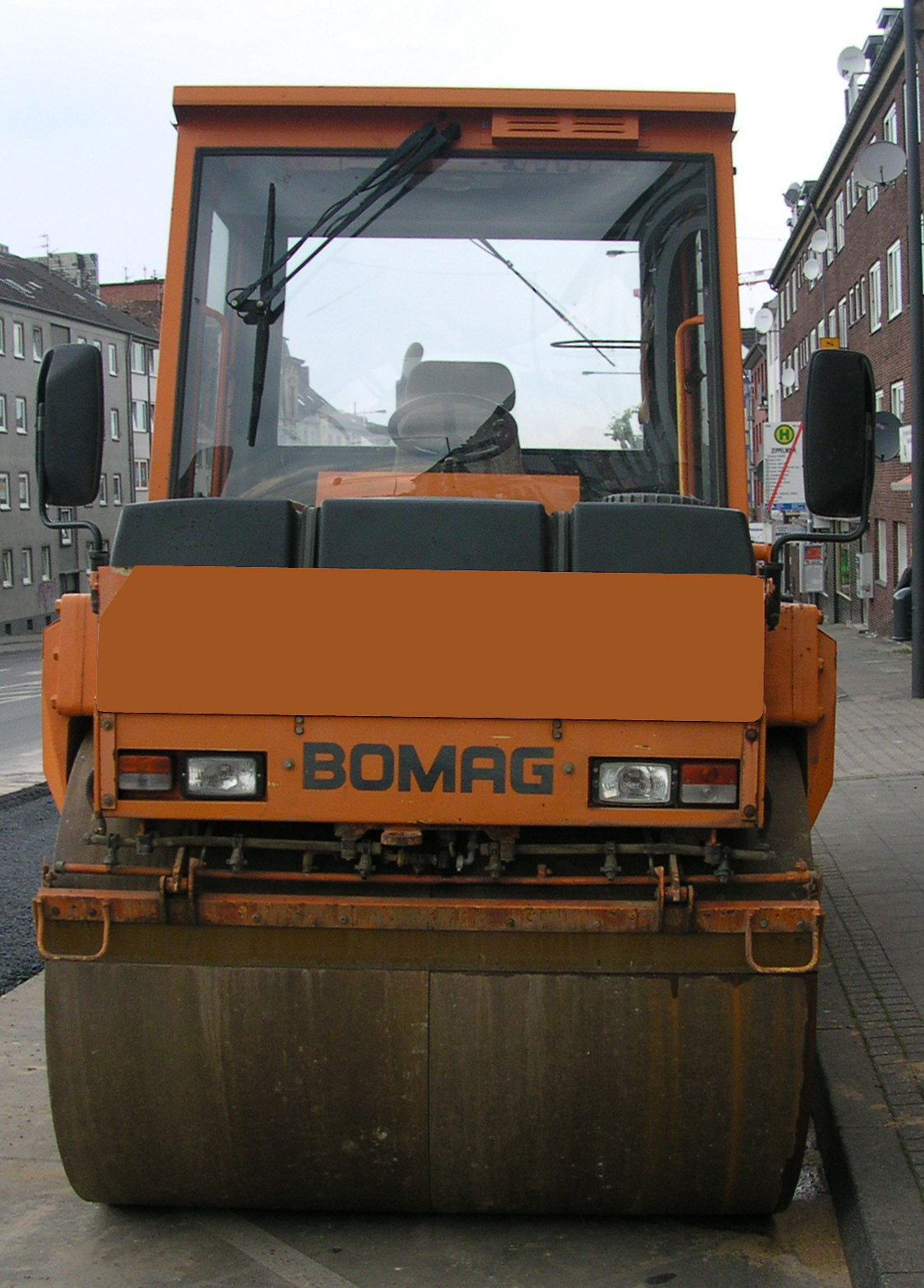 Bomag BW 154 AD-2 road roller